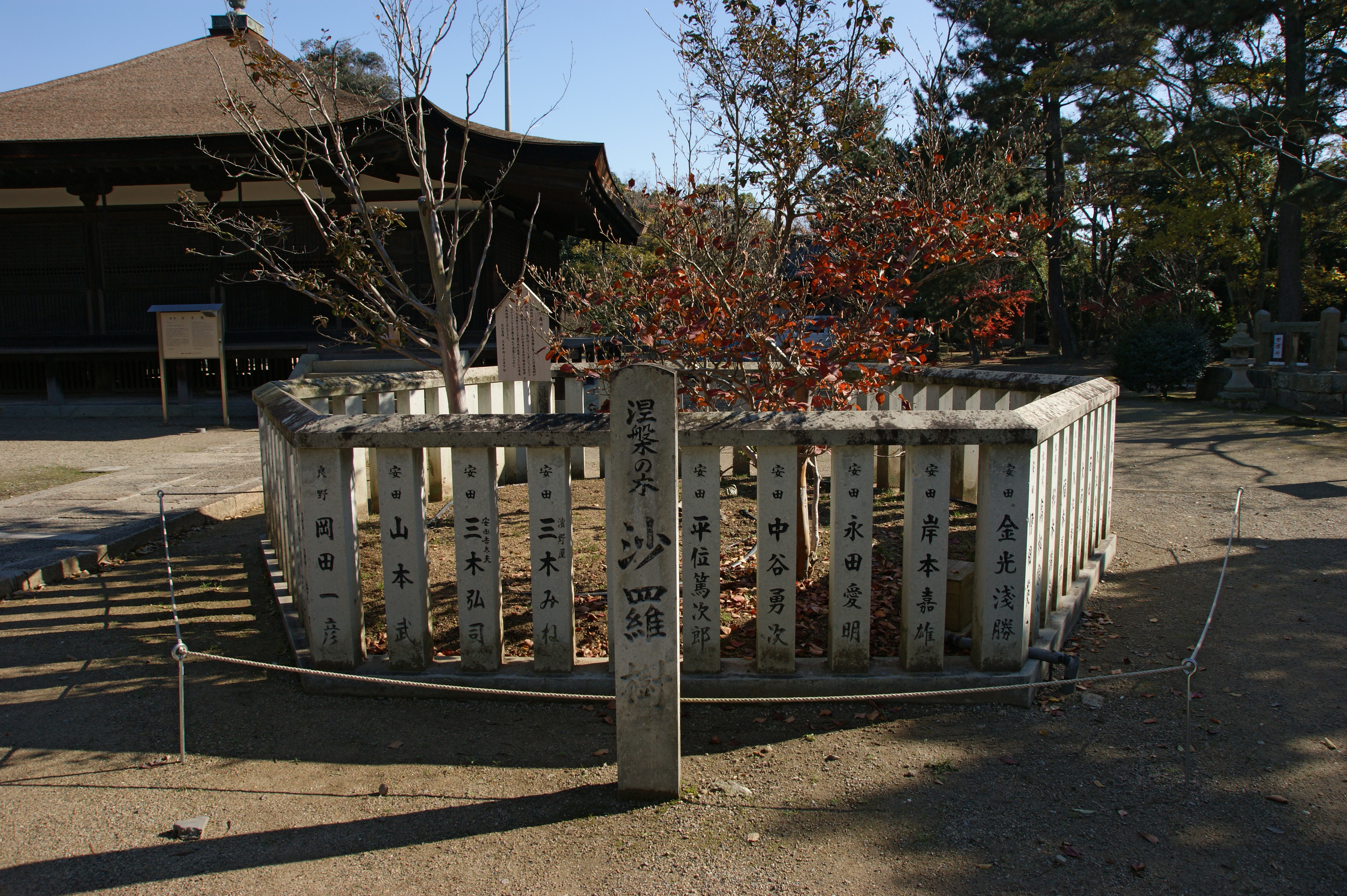 Kakurinji, Kakogawa, Hyogo prefecture, Japan